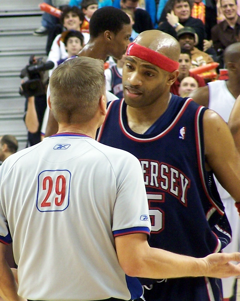 Vince Carter talks with a referee.